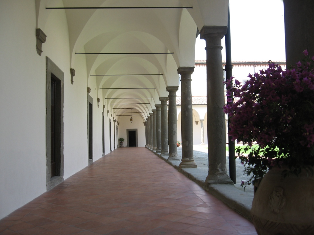 The convent